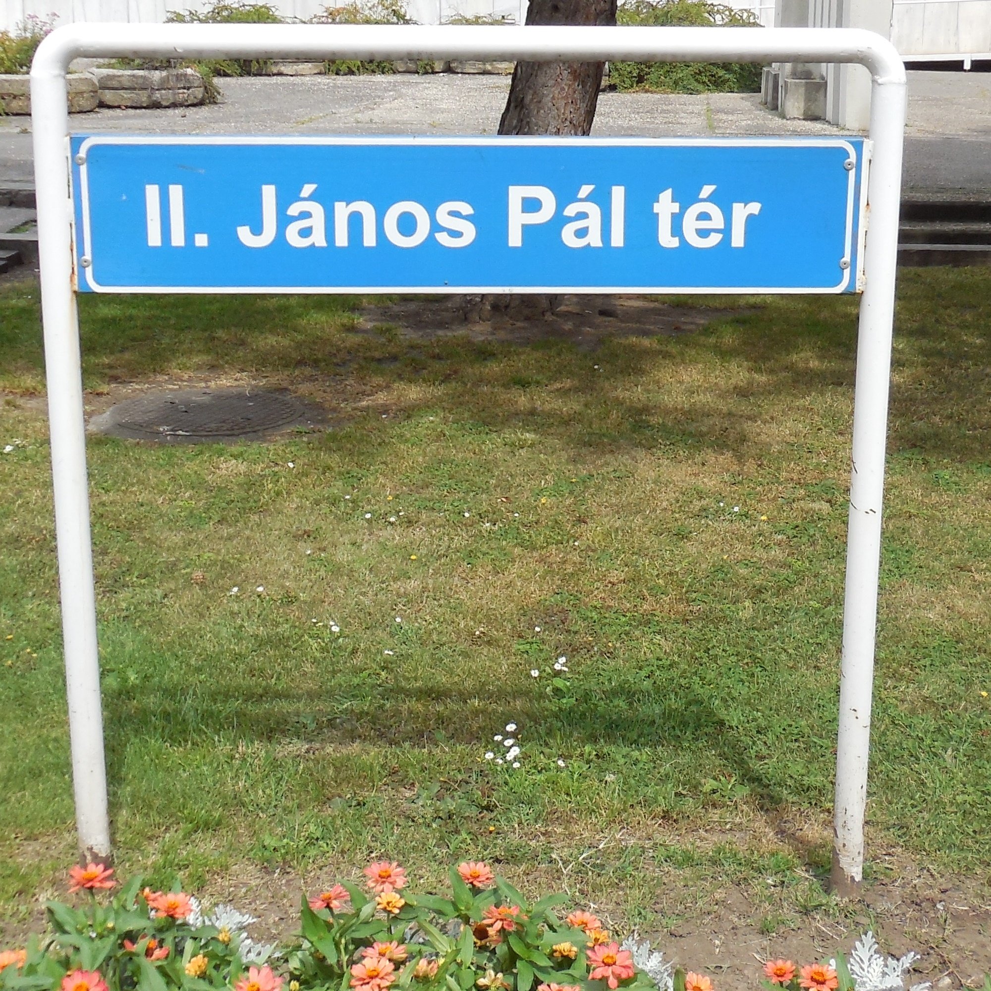 Street sign: John Paul II Square, Győr (Hungary)